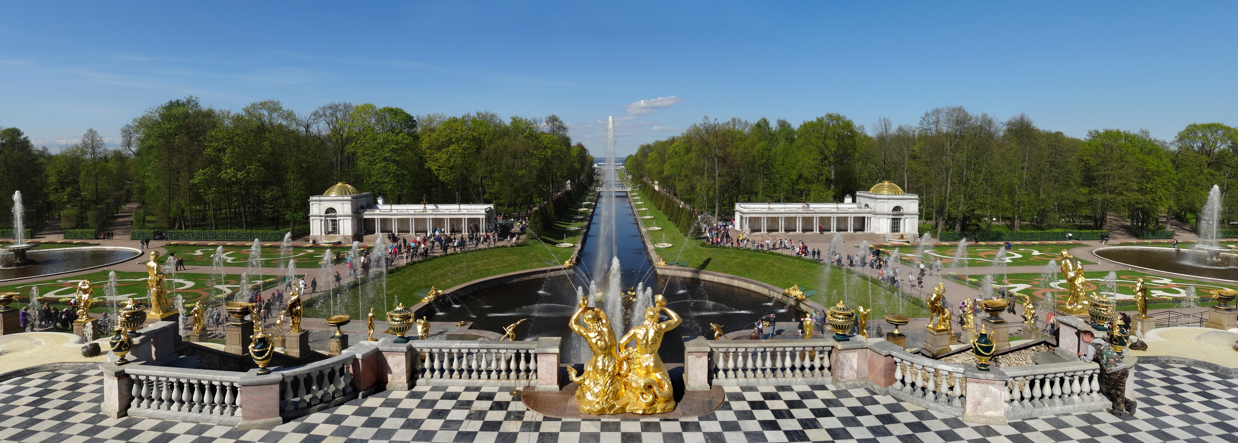 Peterhof Palace, lower gardens. View of the Golden cascade, the canal and the Baltic Sea. The image was assembled from three photos.